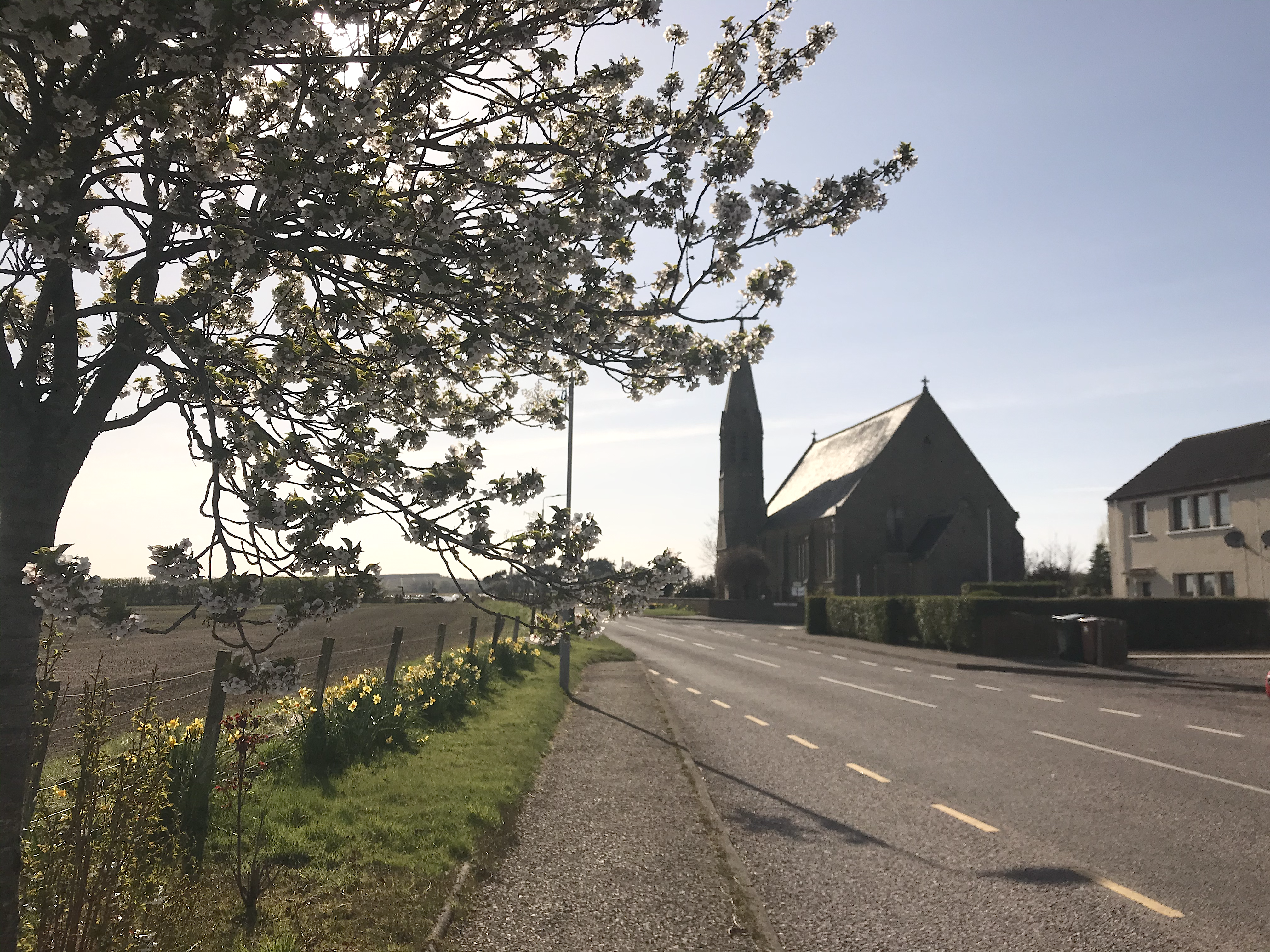 A picture of Duffus Kirk and Hopeman Road in April 2020.